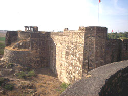 front side of fort